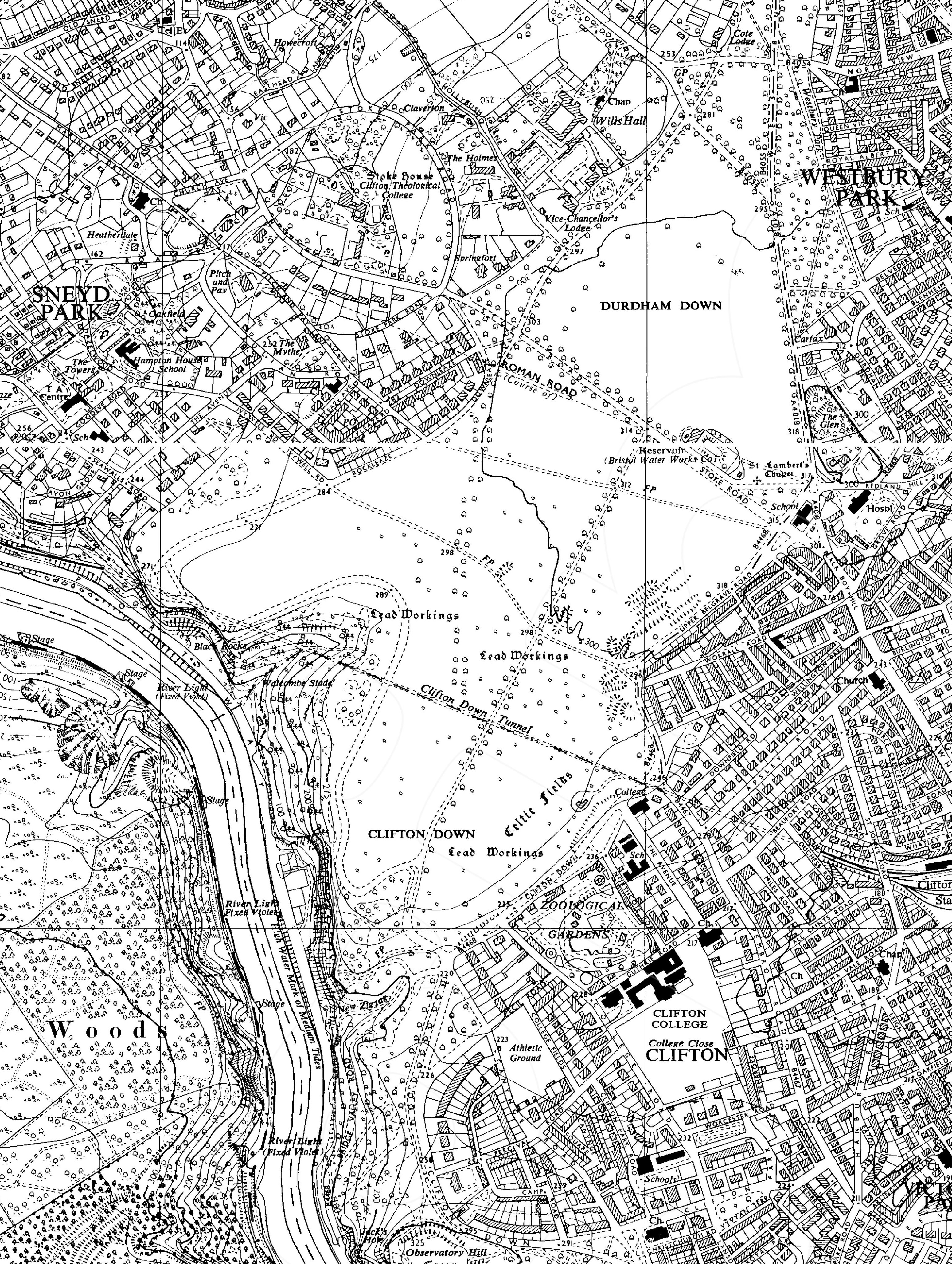 1955 Ordnance Survey map of Durdham Down & Clifton Down.